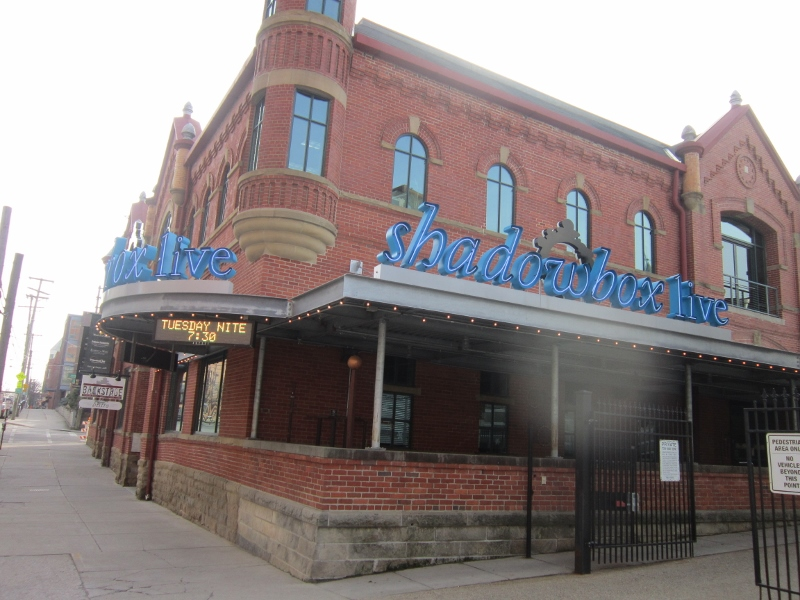 shadowbox live theatre